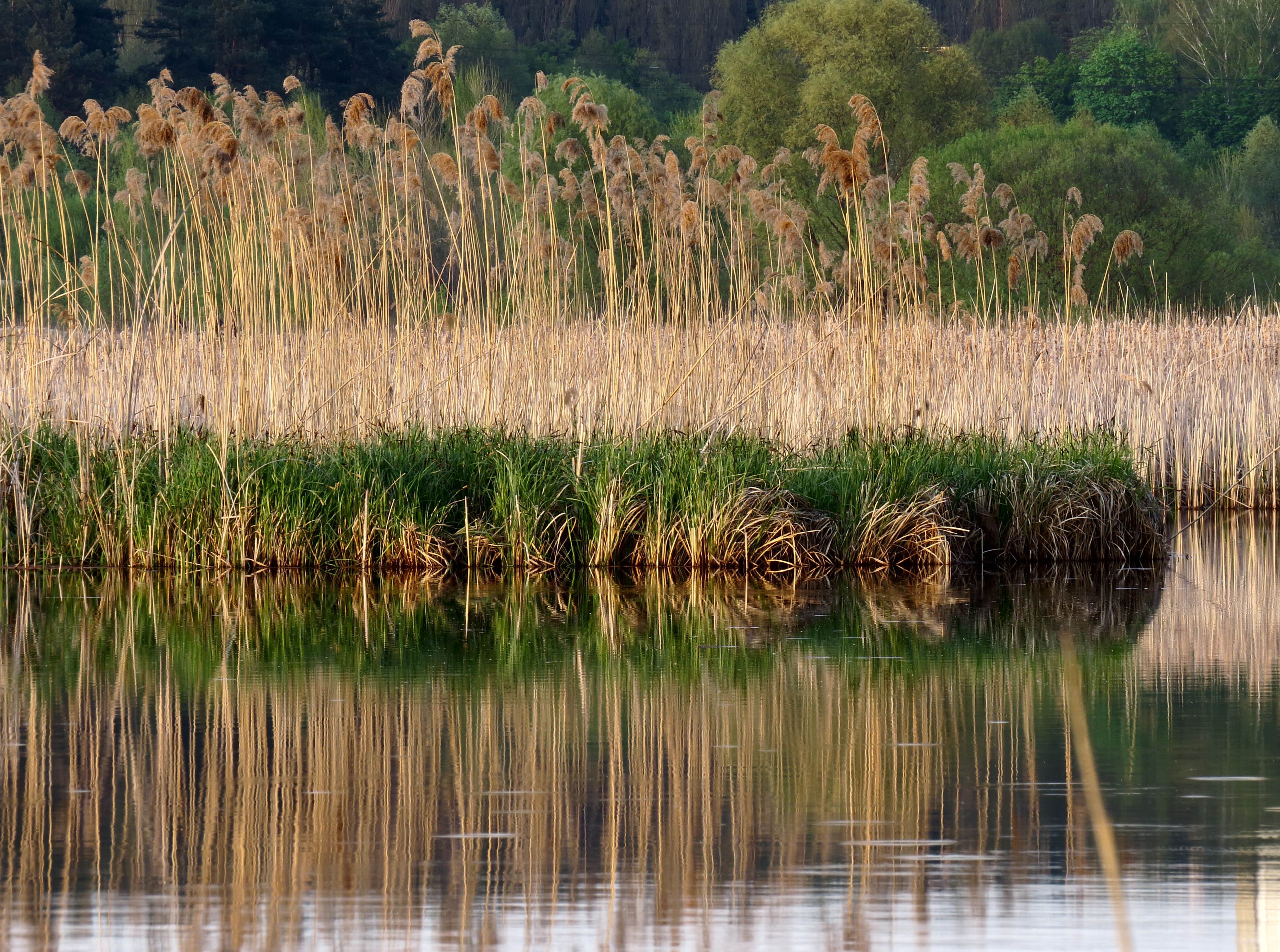 Ukraine, Kiev, Svyatoshyn ponds. Small island of Phragmites australis and Carex acutiformis